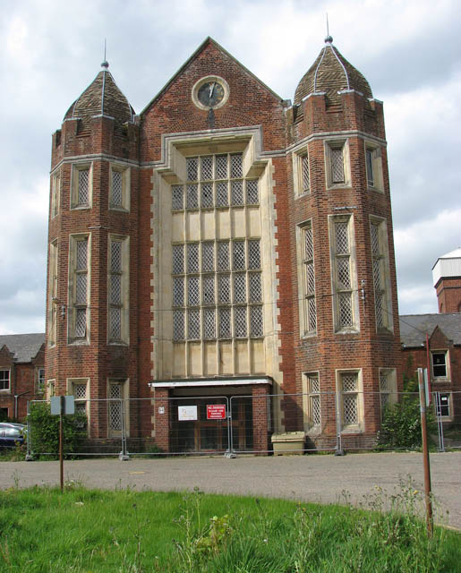 St Michael's Hospital (closed) - south elevation The hospital has recently been closed and its clinics were replaced by community services. Most of the older buildings will be converted to private housing. To the front of the former hospital building an area encompassing 3.1 hectares of green open space will be retained. St Michael's was built by the architect Donthorn in 1848/9 and originally was a Union workhouse for 'aged men, aged women and idiots'.